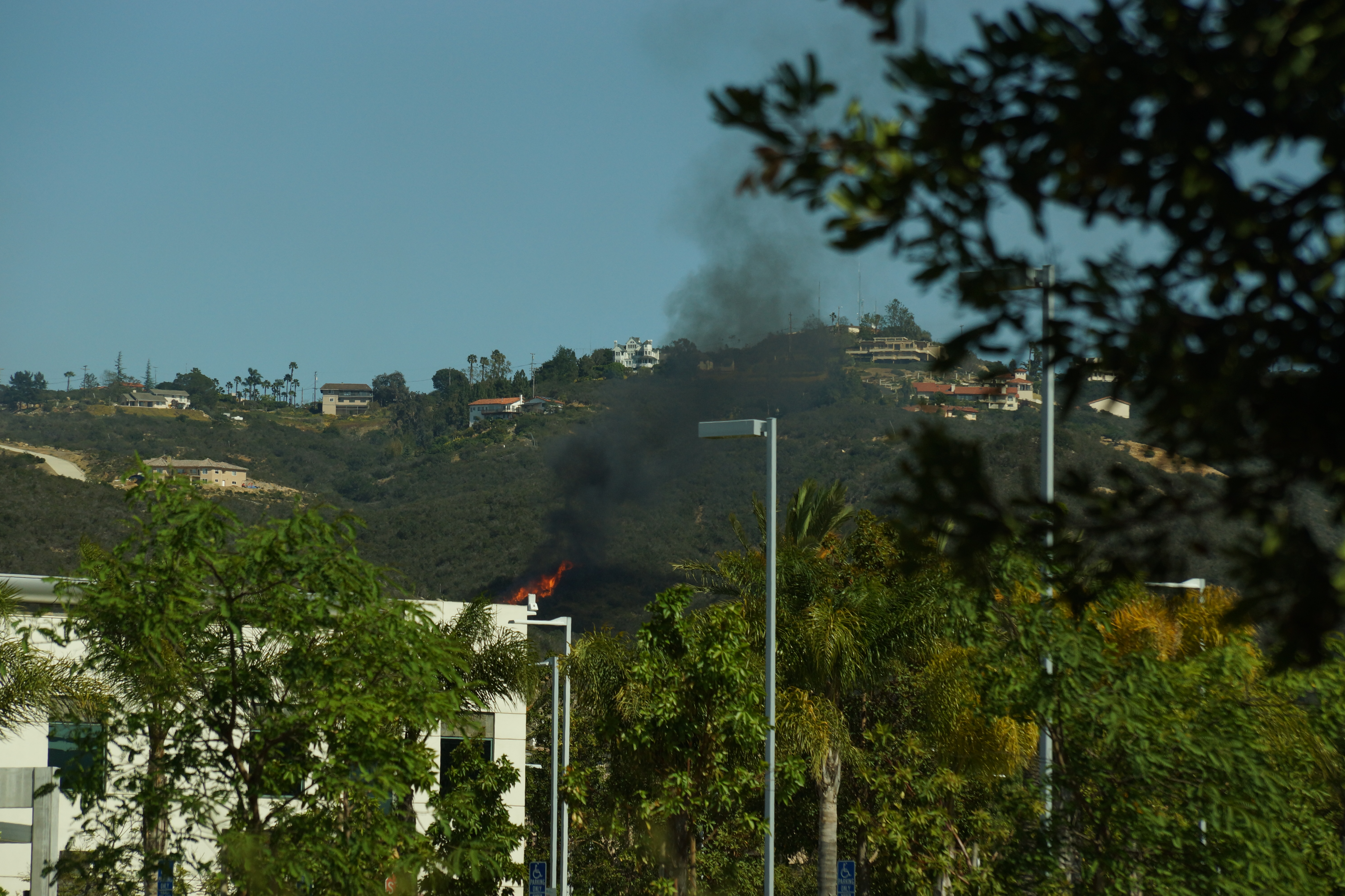 This photo shows the beginning time frame of the Cocos Fire. In the background, up on the hill, is the last remnant smoke from the Washingtonia Fire - whose embers started the Cocos Fire, according to testimony in court. This photo was used in the trial of the juvenile found guilty of setting the fire. Google pin points to San Marcos, California as location.